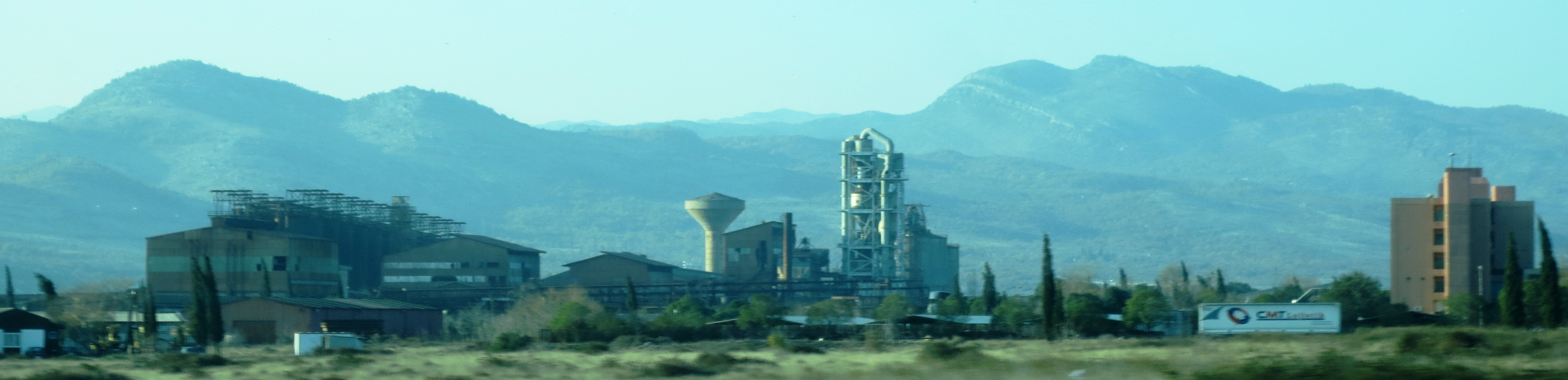 The Combinat for Aluminium Production of Podgorica (KAP), is the largest industrial plant in Montenegro. South of the capital Podgorica, this industry facility has been re-nationalized after an unsuccessful russian takeover of the factory.